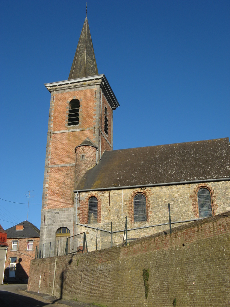 Église de Louvignies-Bavay, Bavay, France This building is indexed in the Base Mérimée, a database of architectural heritage maintained by the French Ministry of Culture, under the references IA59000592 and type.